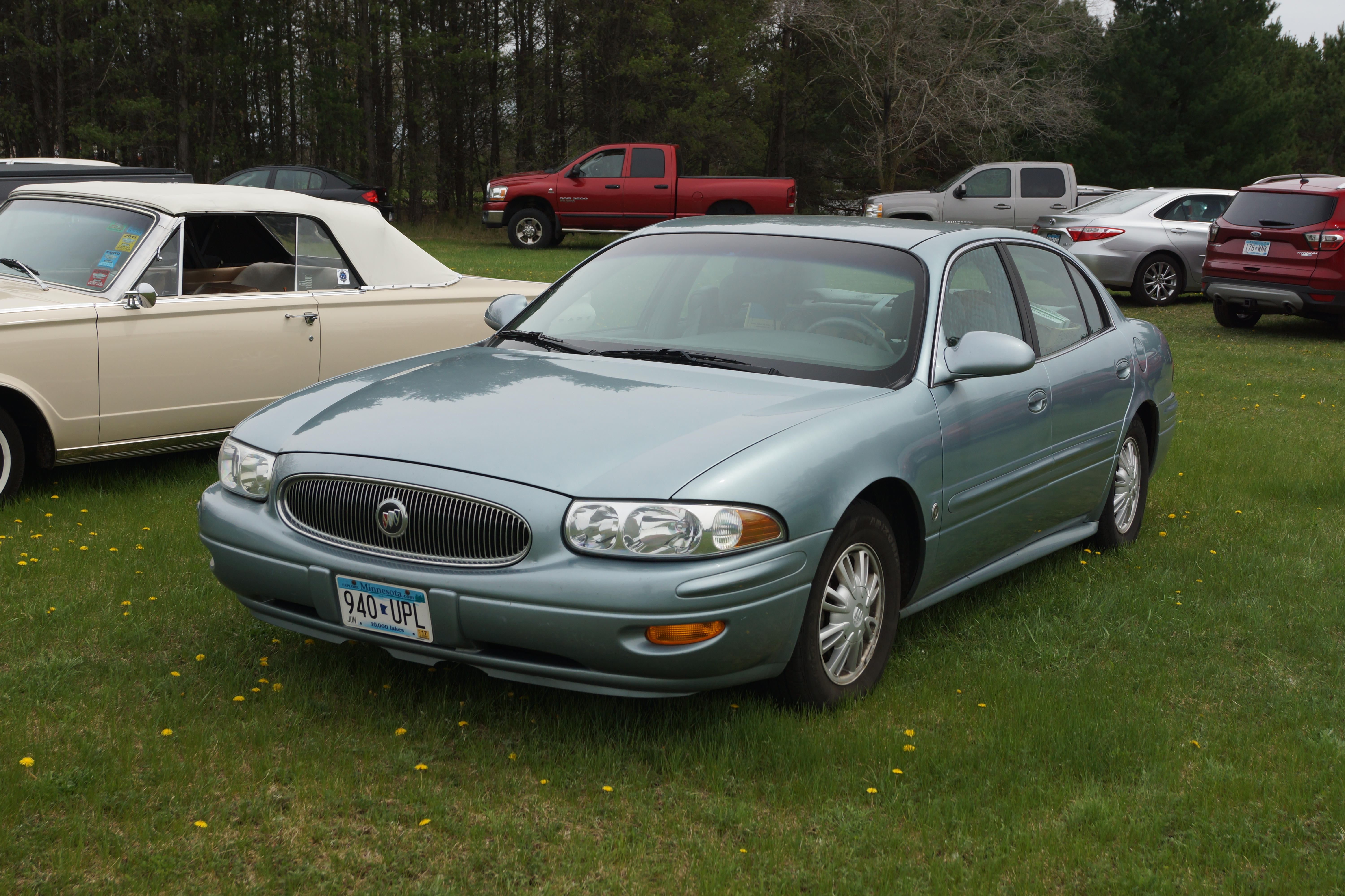 Francis invited me to ride along on the Upper Midwest Region Classic Car Club of America's Spring Garage Tour. Unfortunately, Francis was unable to make it, so I went and took pictures for him. The tour started in Hastings, Minnesota and ventured east into Wisconsin. The day started out sunny, but got cloudier as the day progressed. Still a nice day and good for avoiding shadows on outdoor shots. Even though I was busy taking pictures, I had a chance to talk to a lot of nice people and see some very amazing cars. Taking pictures on a garage tour is always a little frustrating. You get to see these beautiful cars, but usually a garage setting is too tight to get nice pictures. The route was beautiful, but I had a few missed turns primarily because Wisconsin's road marking methods are a little different than what I am used to in Minnesota. It was a great day and I would like to shout out a big "THANK YOU!" to the hosts that opened up their garages and to event coordinators that put the whole thing together. Click here for more car pictures at my Flickr site. Or here for my Car Crazy Tumblr site. Or on Twitter @DVS1mn.